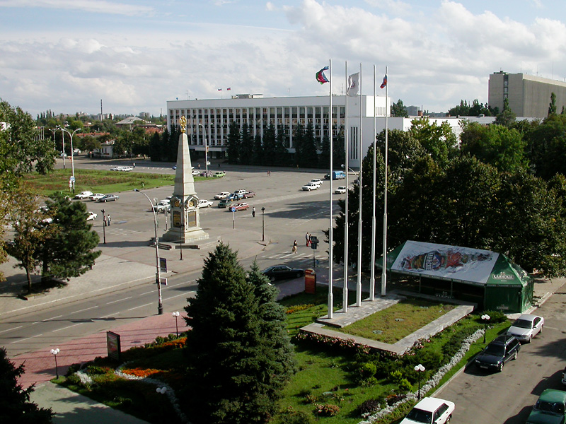 Krasnodar, The October Revolution Square and the local government building (Red street), view from a balcony of the Intourist hotel.